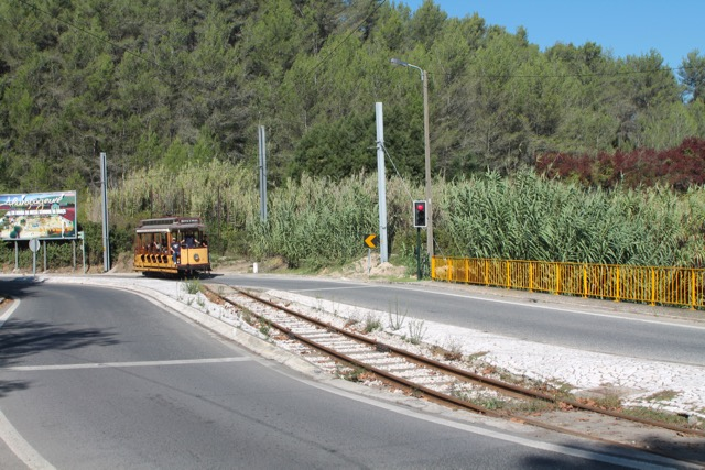 Tram no.7 crosses the Ponte de Redonda.